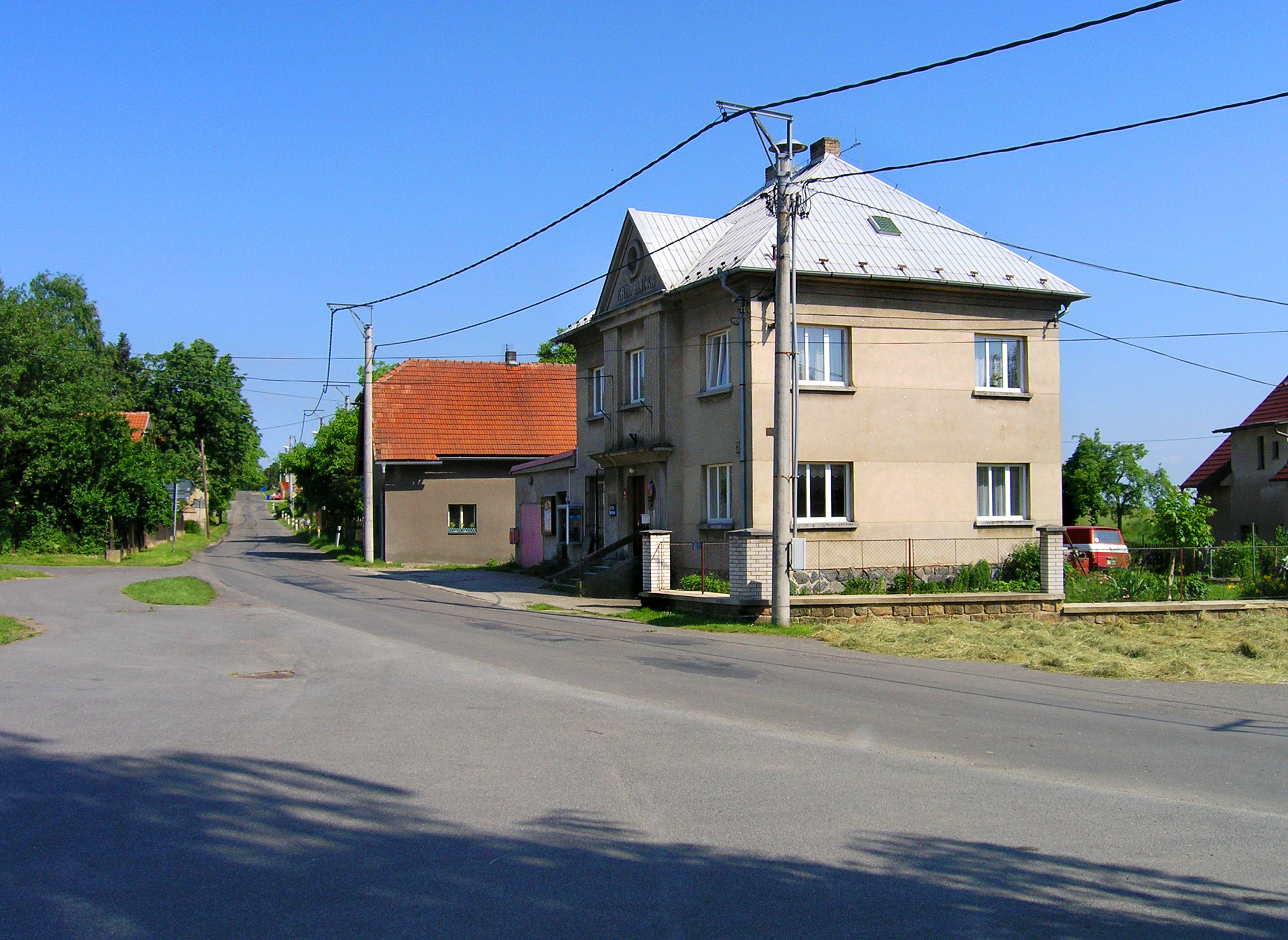 Town hall in Křížkový Újezdec, Czech Republic